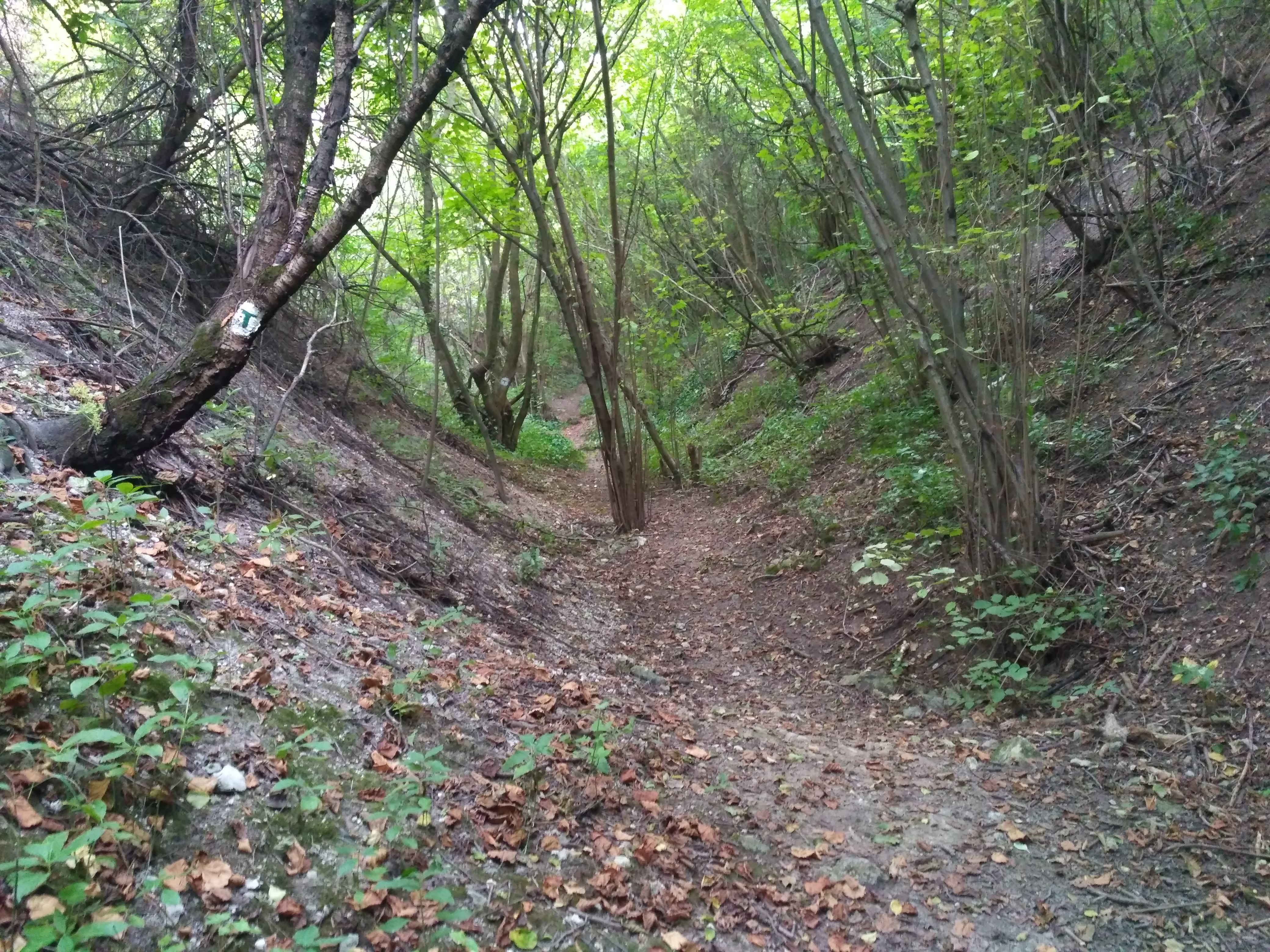 Nature trail of Fundoklia Valley.